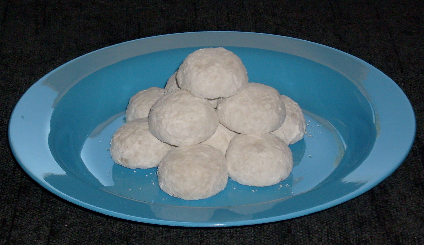 Pfefferneuse holiday cookies.